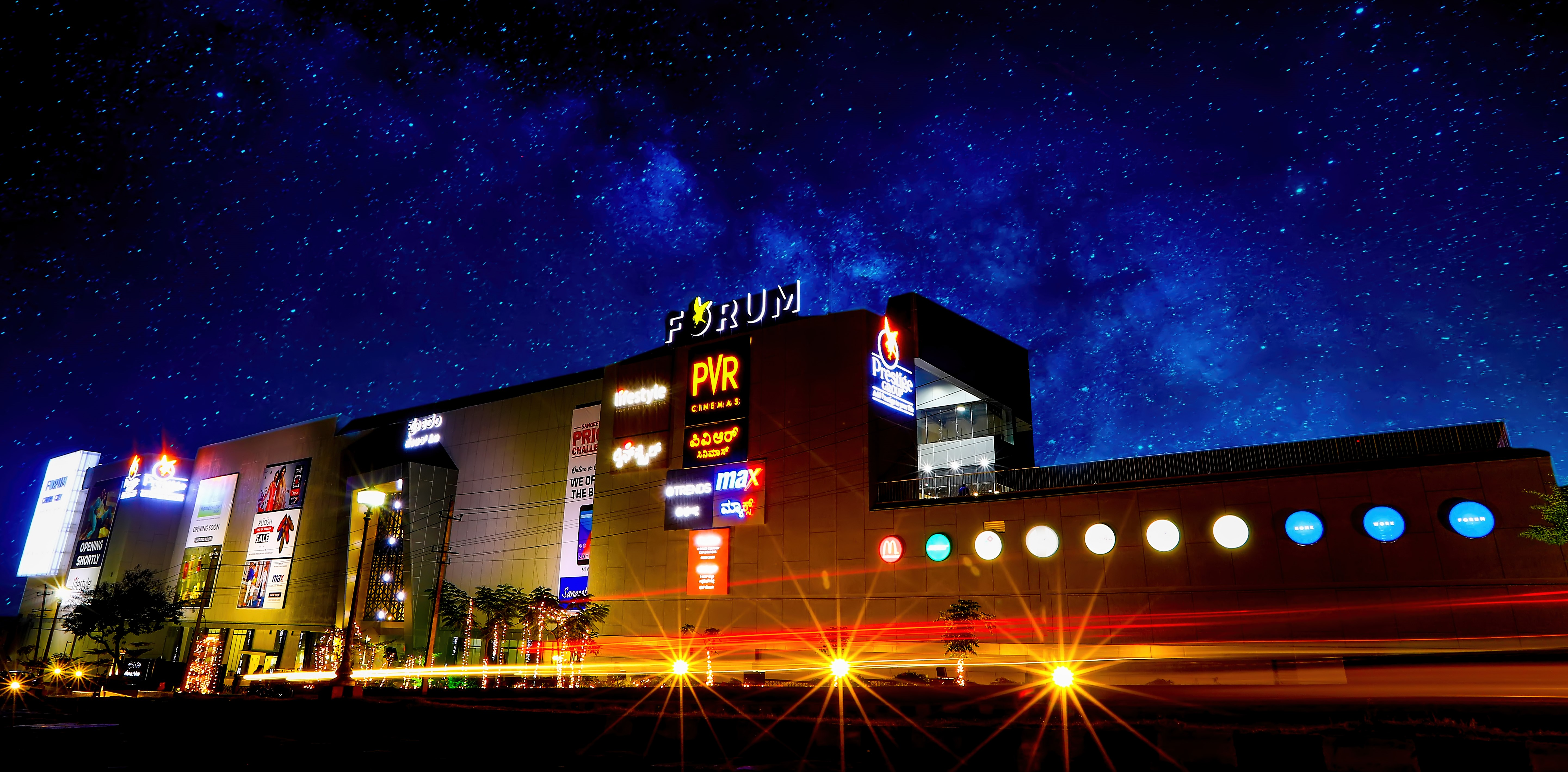 Forum Centre City provides the perfect mix of International and popular domestic brands, making it the most prodigious shopping centre in the city.